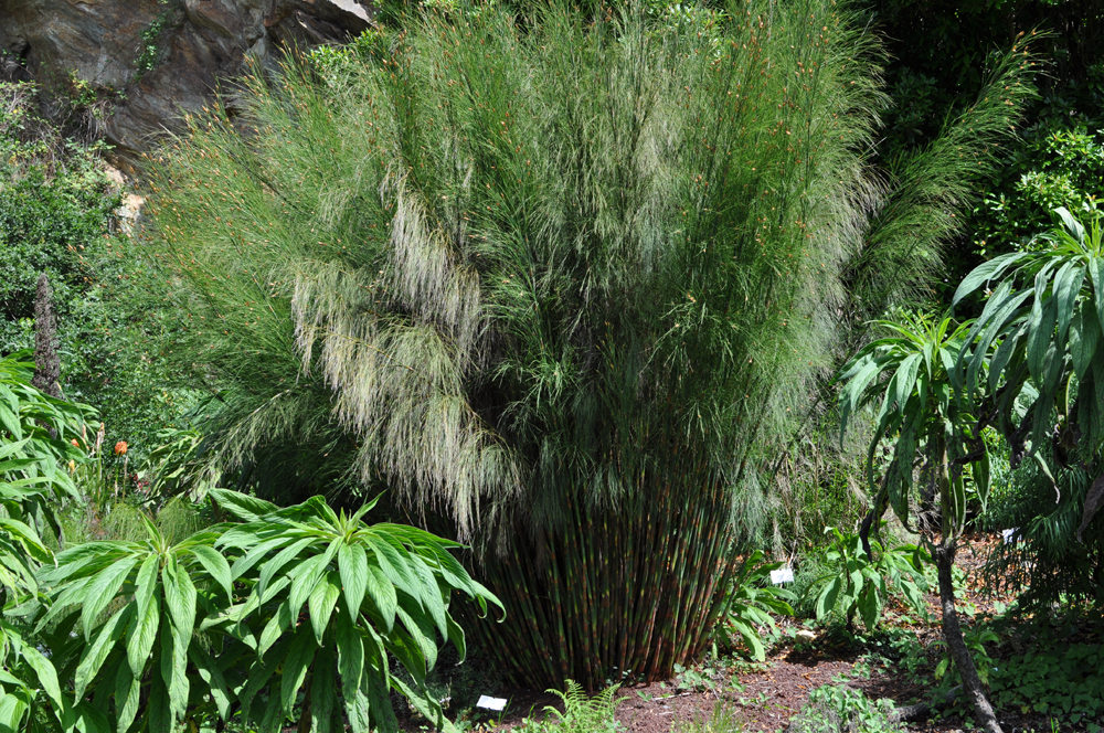 cannomois virgata Conservatoire botanique national de Brest Native nameConservatoire botanique national de BrestLocationBrest, France, FranceCoordinates48° 24′ 10″ N, 4° 26′ 54″ W Established1975: established, 1978: opened to publicWebsite